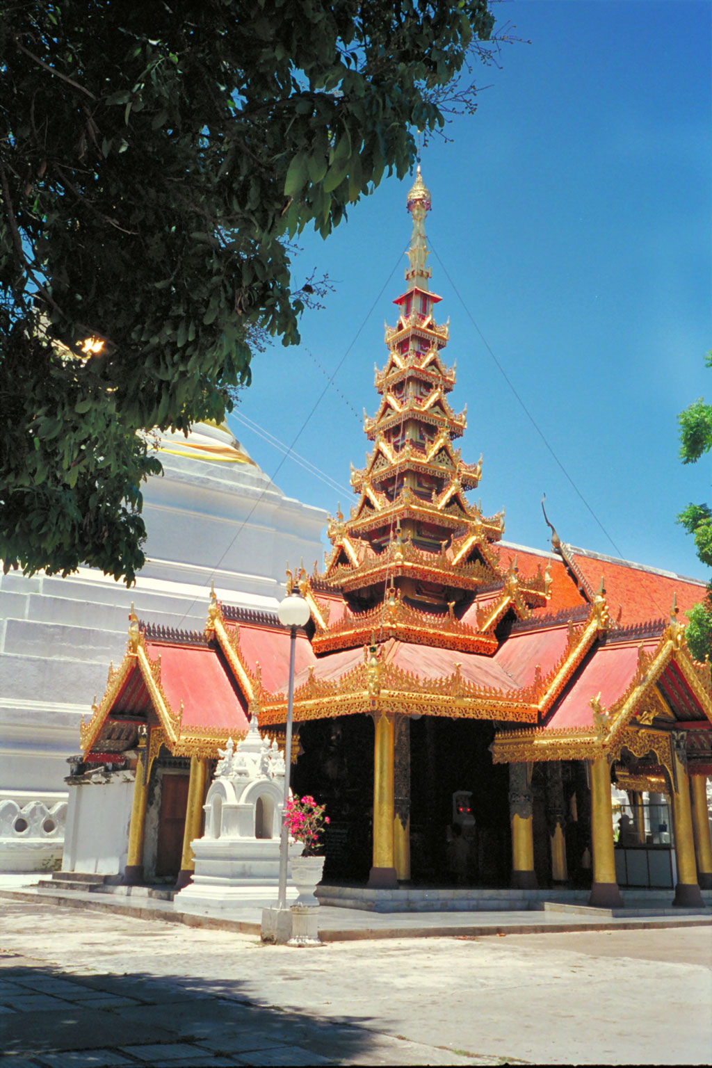 Wat Phra Kaeo Don Thao mondop (library), Lampang, northern Thailand